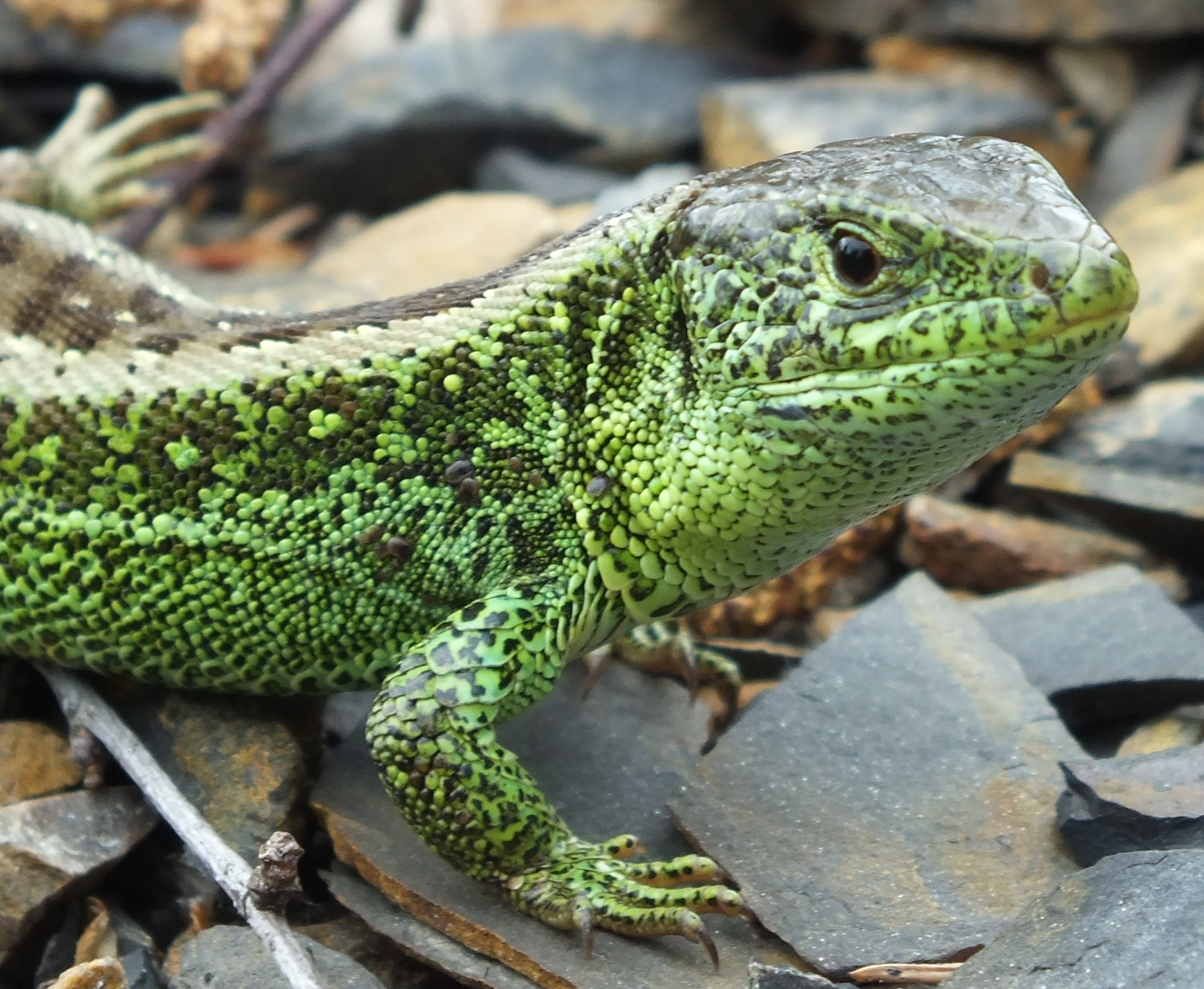 Lacerta agilis - male